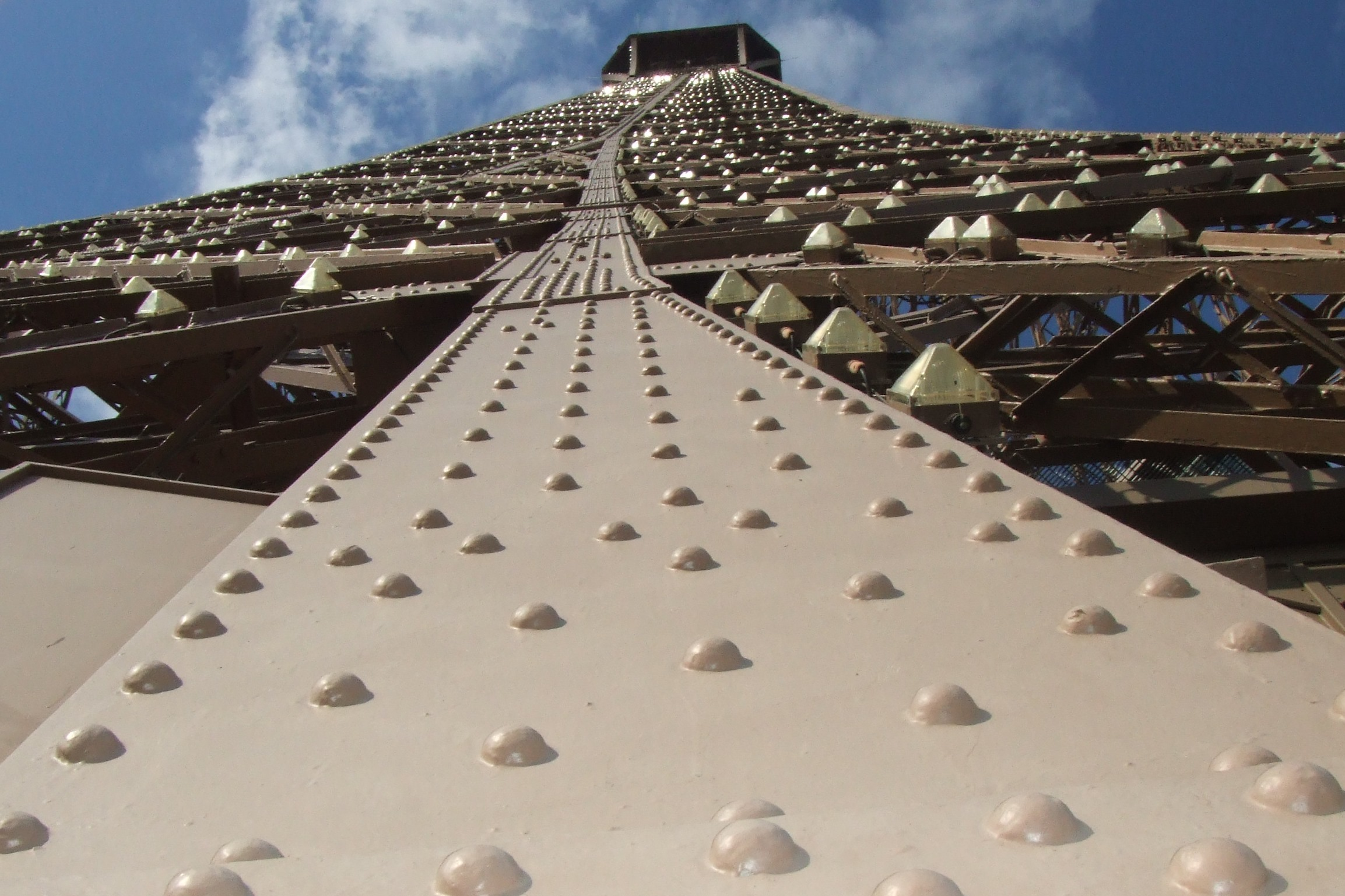 Structural details of the Eiffel Tower. Camera position: View from the second floor of the Eiffel Tower to the third floor.